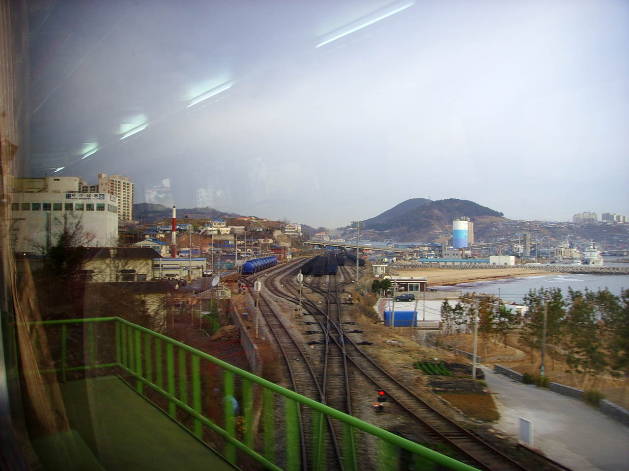 Mukhohang Line Mukhohang Station